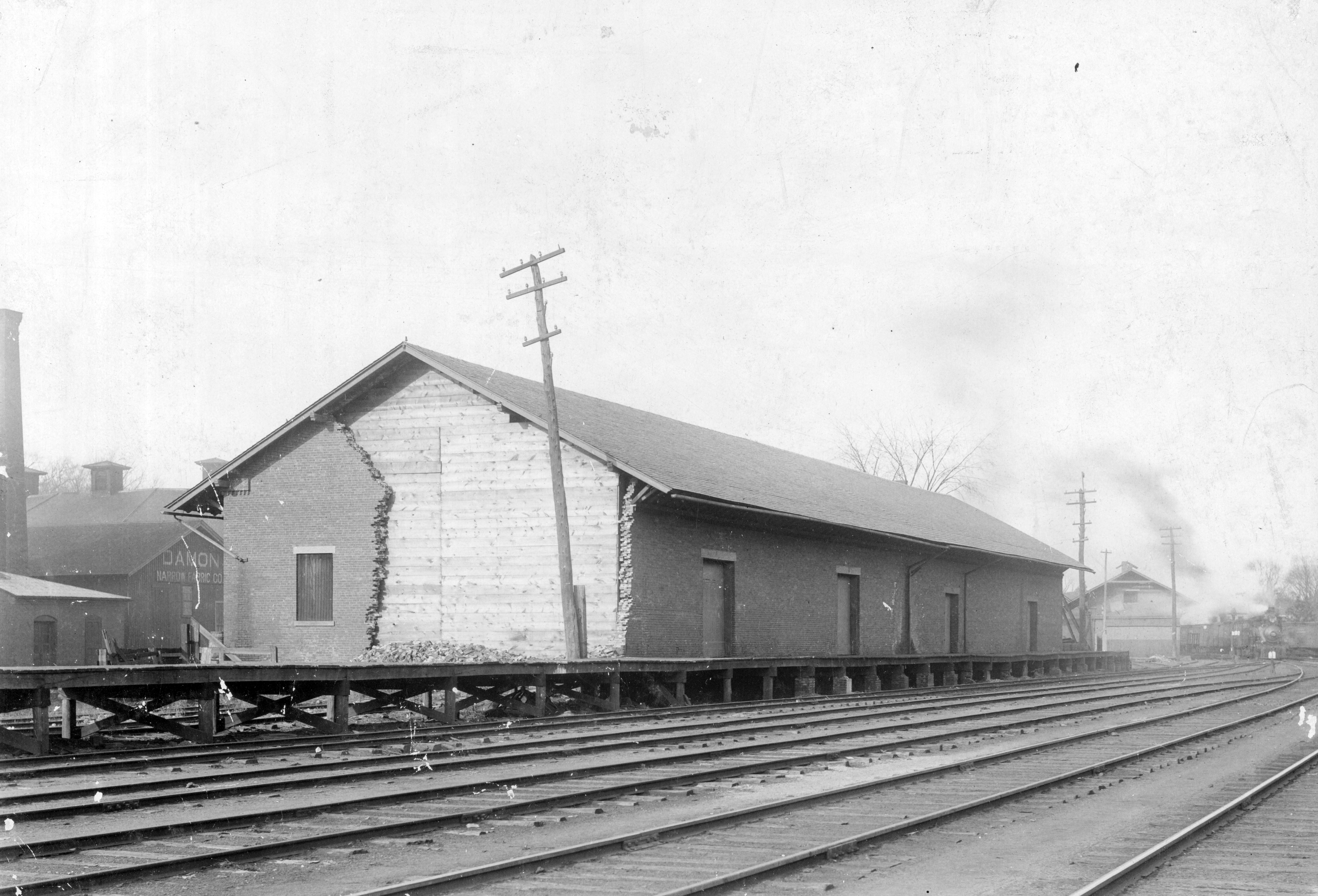 Image of the former Connecticut River Railroad freight house in Northampton, Massachusetts.